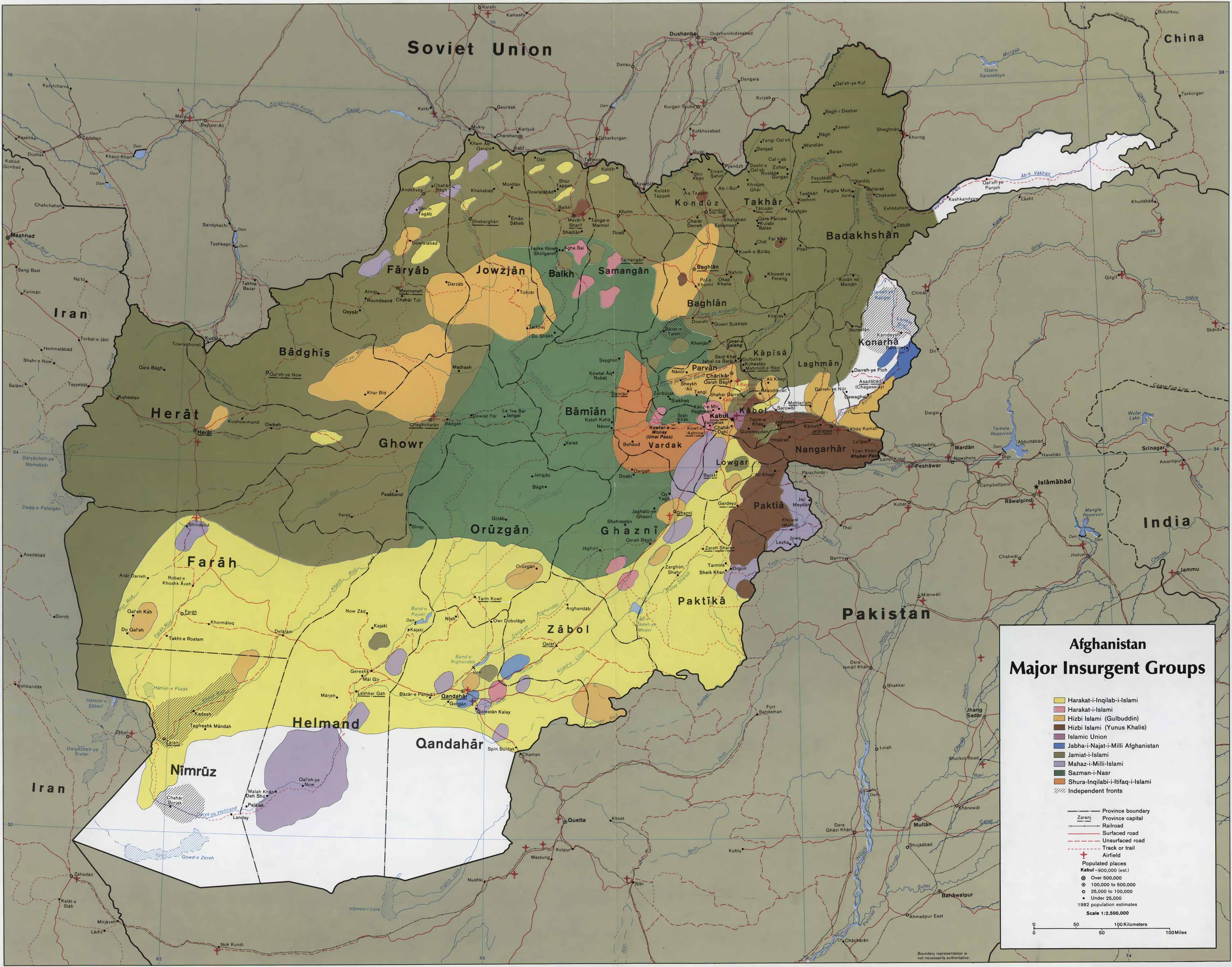 CIA map showing the areas where the main Mujahideen factions operated in 1985, during the Soviet war in Afghanistan. Scale 1:2,500,000 (E 60°–E 75°/N 29°–N 38°).